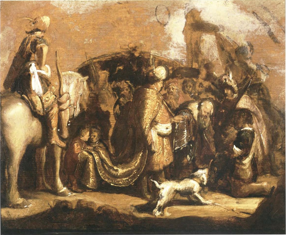 David with the Head of Goliath before Saul, after Rembrandt, after 1639, oil sketch on panel, 27,2 by 39,6 cm, Bader Collection. Acquired by Alfred Bader in 1965.